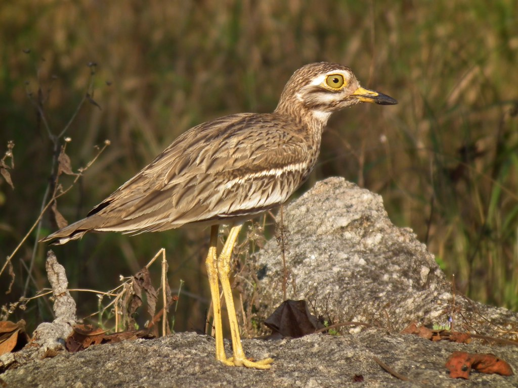 Indian Eurasian Stone-curlew Burhinus indicus (syn. Burhinus oedicnemus indicus), in central India. Pench or Kanha National Park.